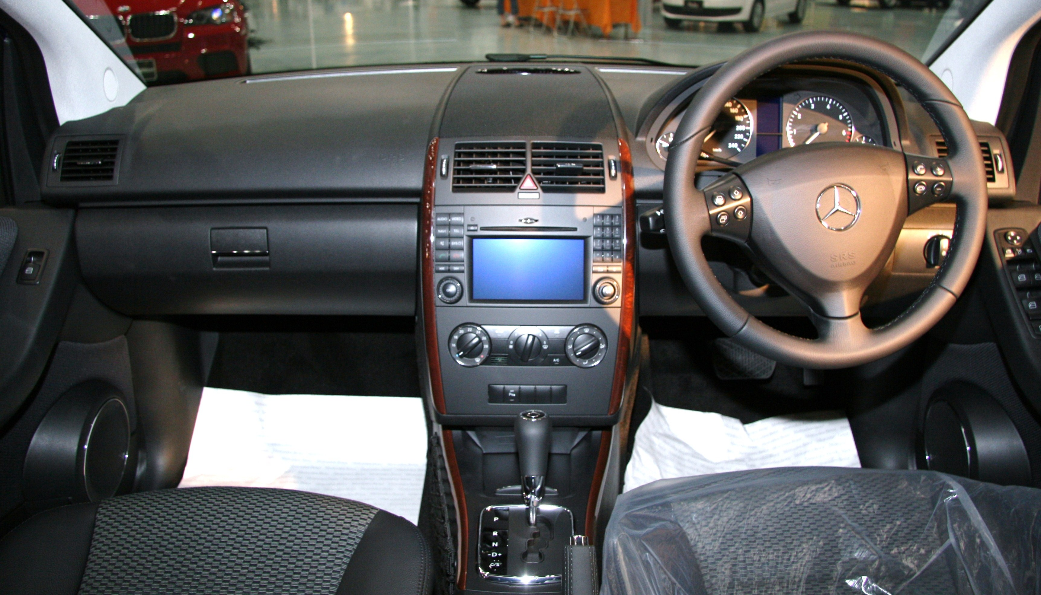 Mercedes-Benz A-Class